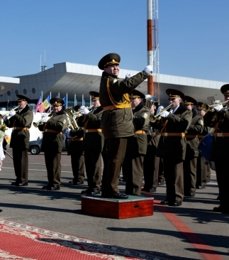 Official greeters await the arrival of Vice President Joe Biden and Dr. Jill Biden in Chisinau, Moldova, March 11, 2011. (Official White House Photo by David Lienemann)